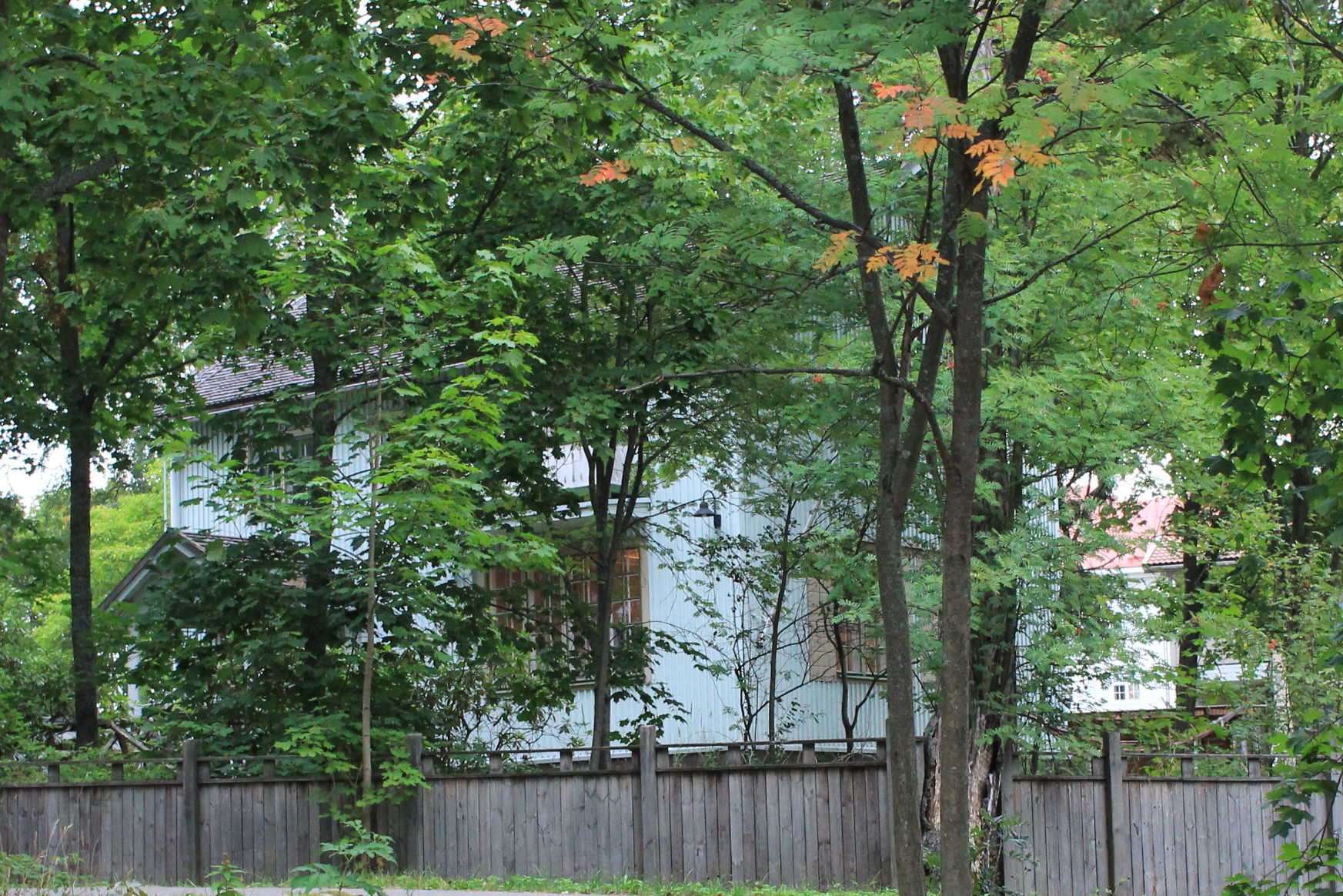 Hopiala, Kulosaari, Helsinki, Finland.